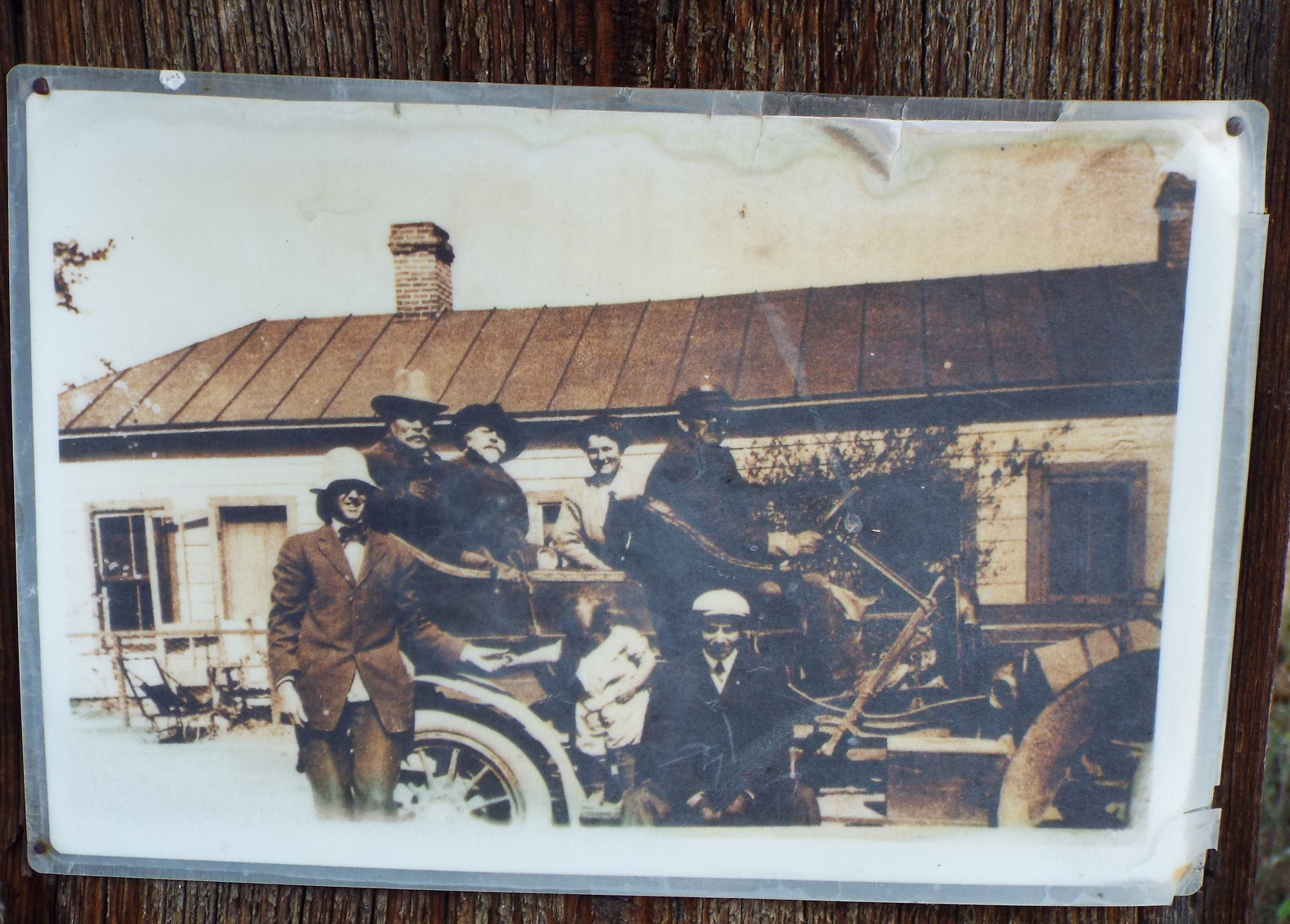 Image of Buffalo Bill Cody in his La Casa del High Jinks in Oracle, Arizona. Taken in the La Casa del High Jinks Ranch. Mr. Cody died in 1917, therefore this image is not subject to the 1823 copyright laws.